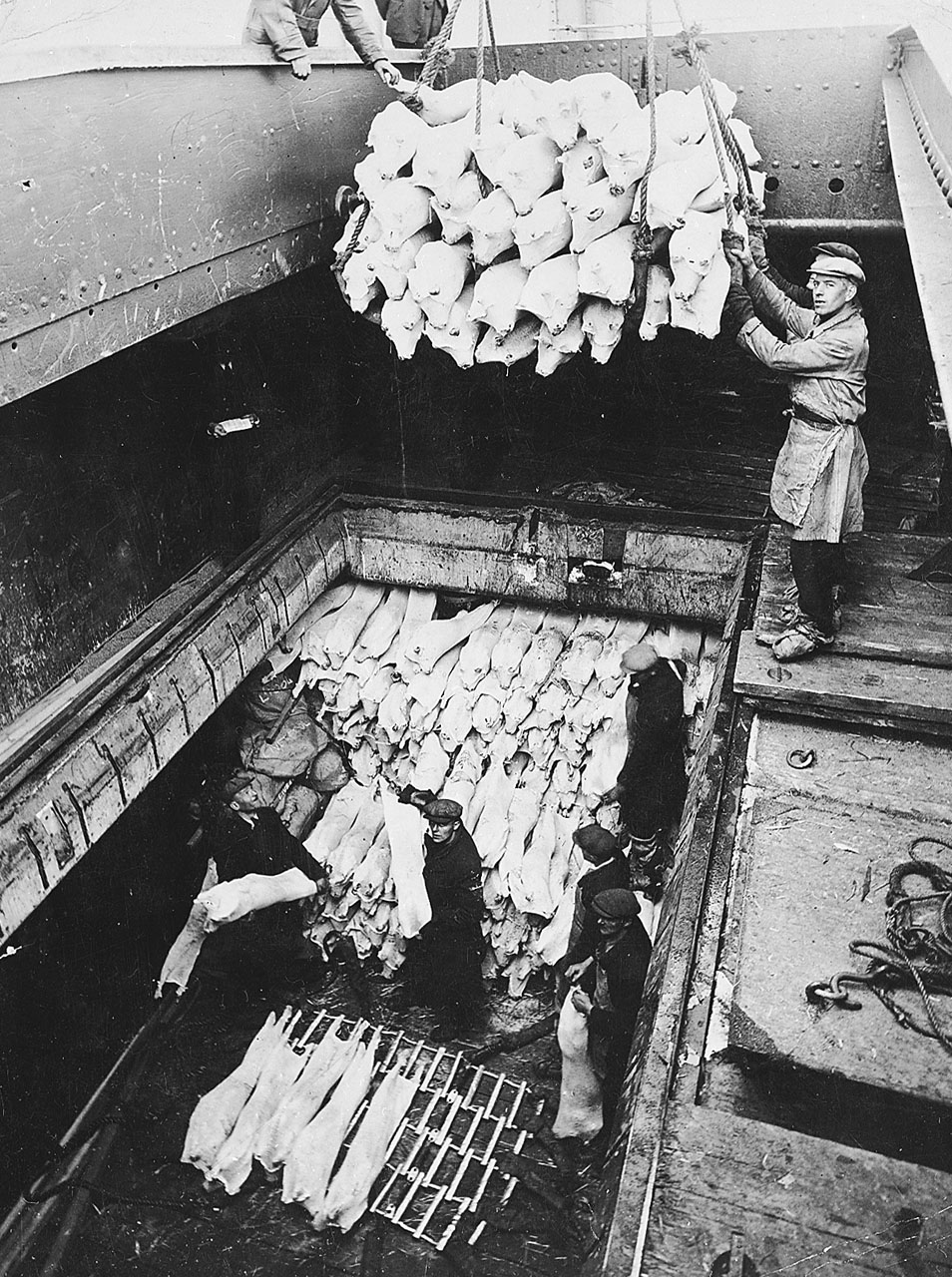 Reproduction ID: P39542 Maker: Unknown Date: Unknown